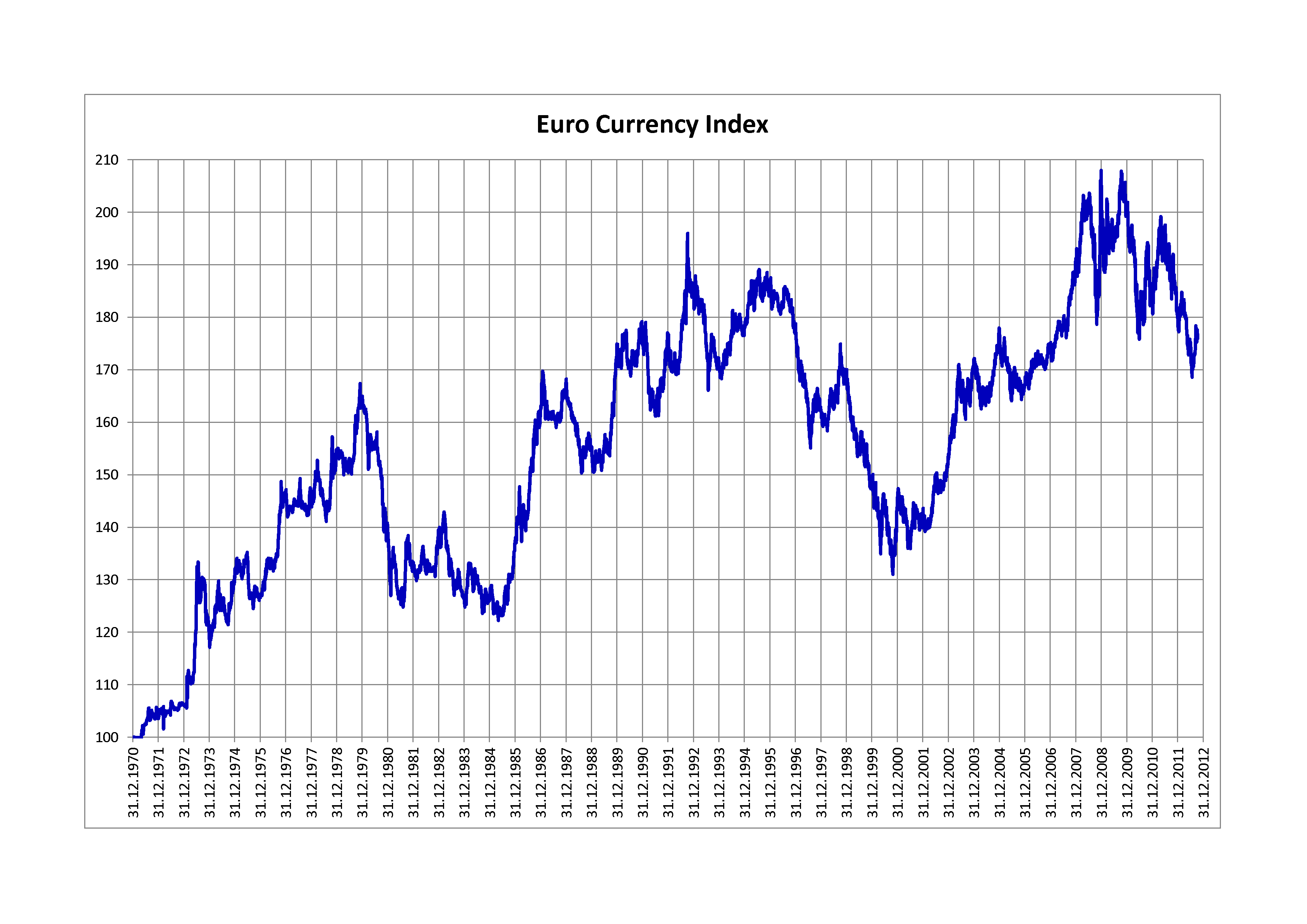 Euro Currency Index from December 1970 to October 2012 (daily closings)